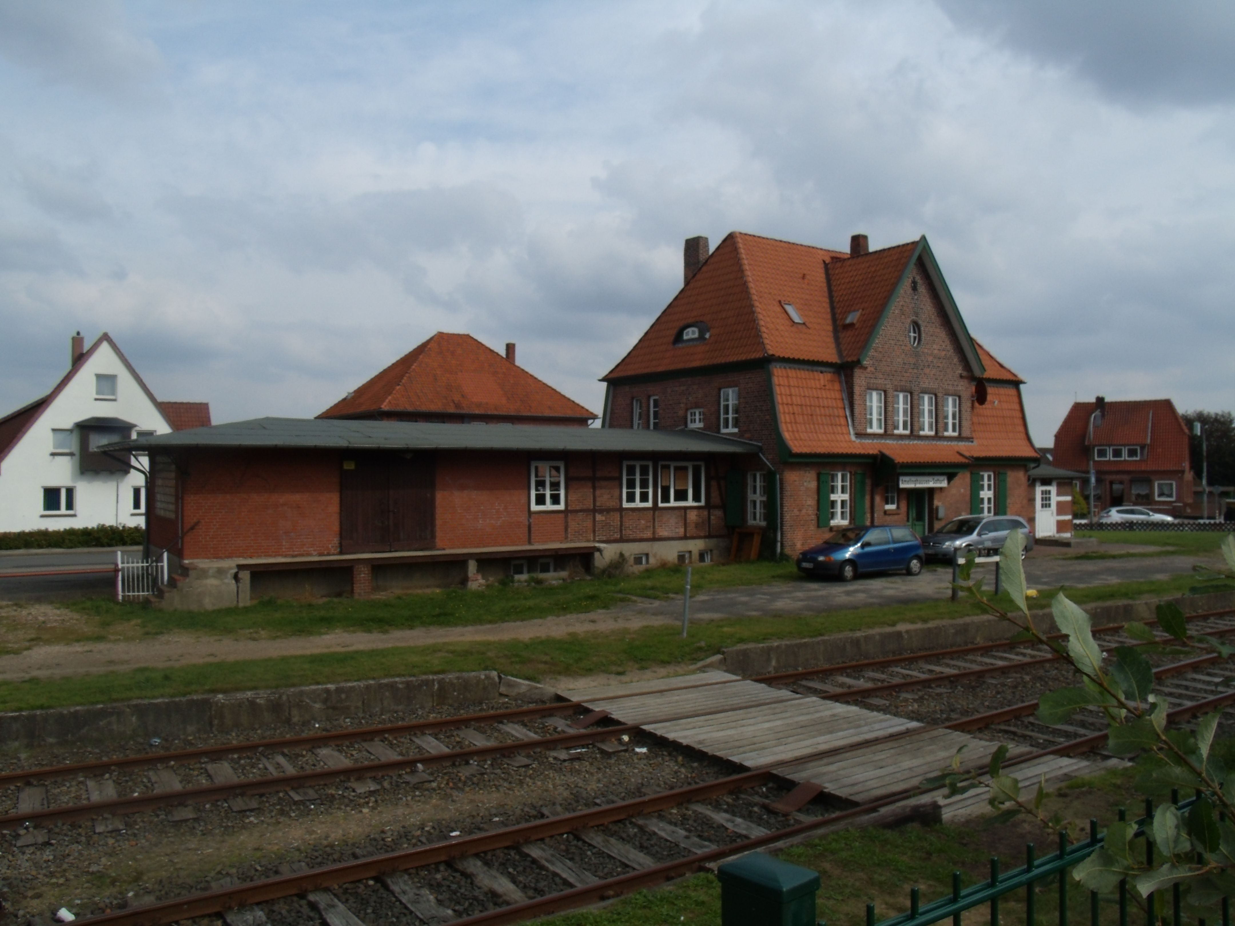 Defunct train station in Amelinghausen